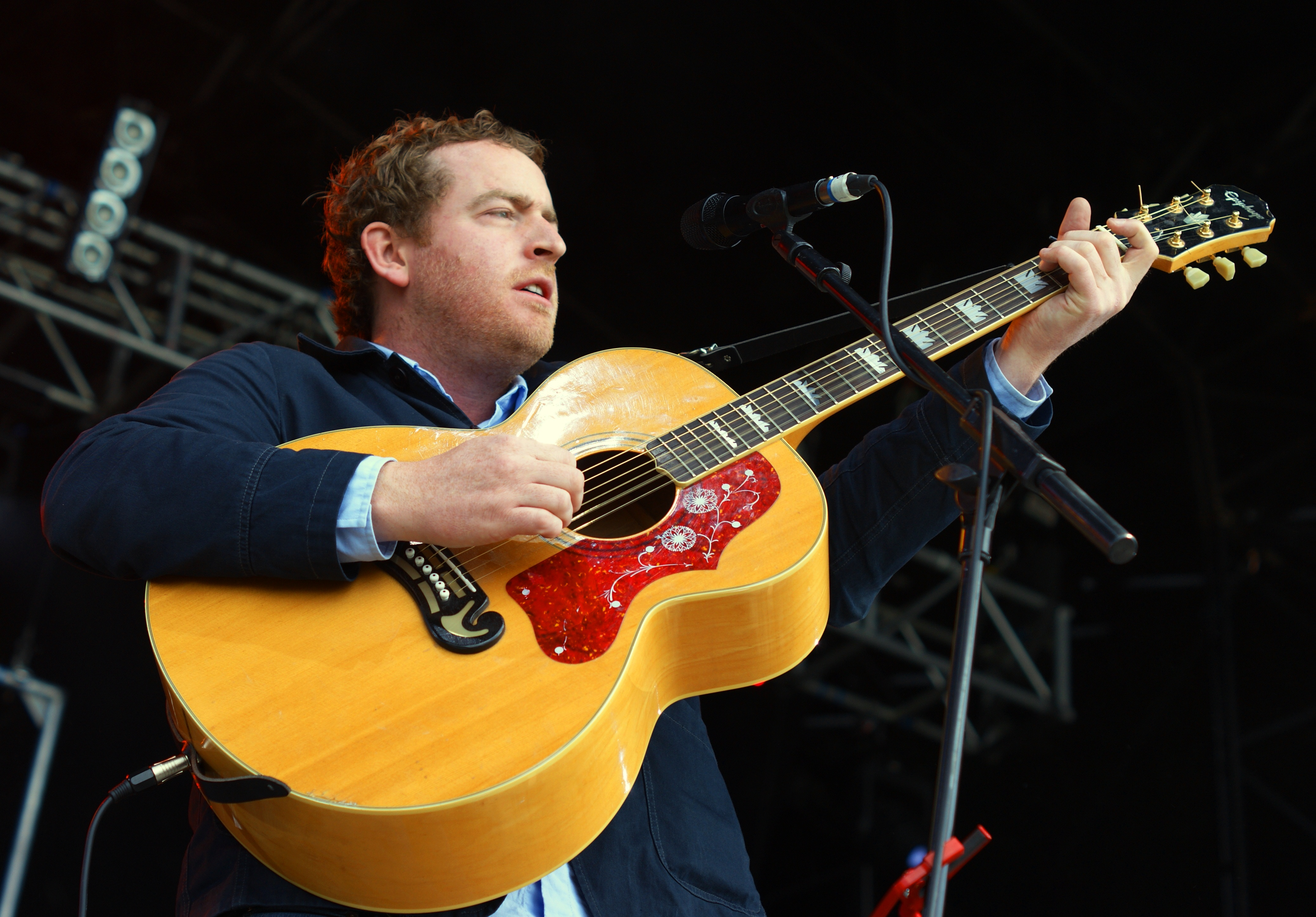 Stephen Fretwell performing at Ben and Jerry's Double Scoop Sundae festival, Heaton Park, Manchester, on Saturday the 23rd of July 2011.